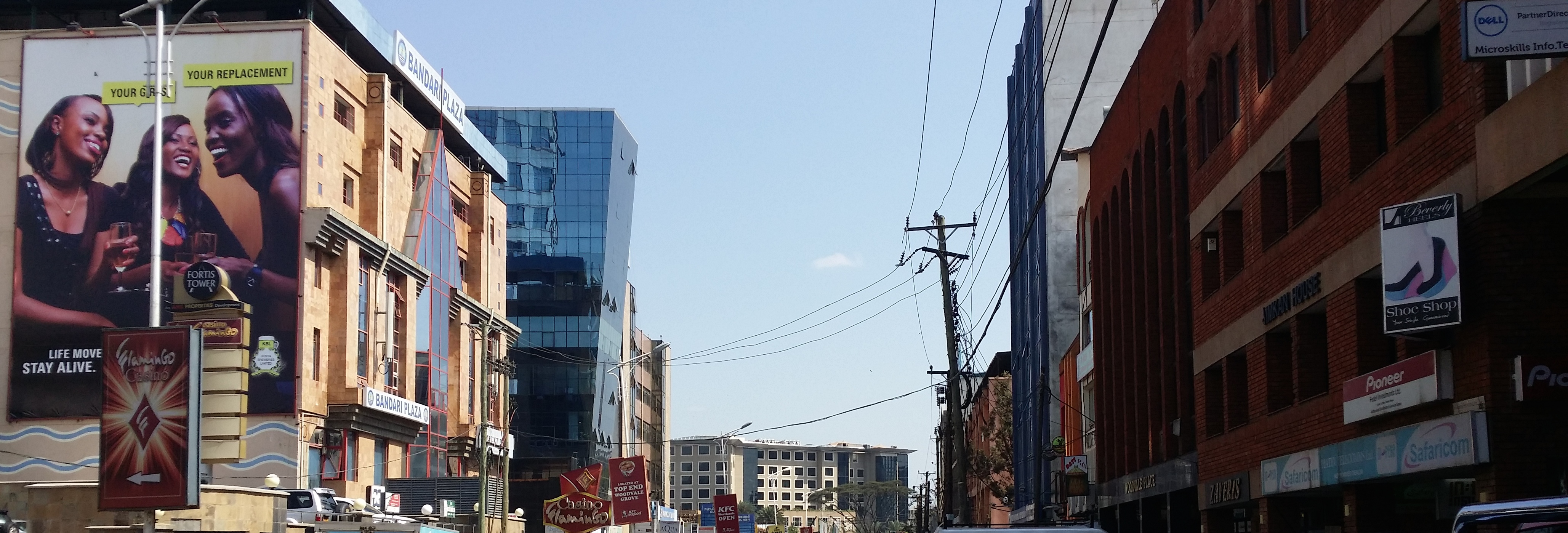 Woodvale Grove, Westlands